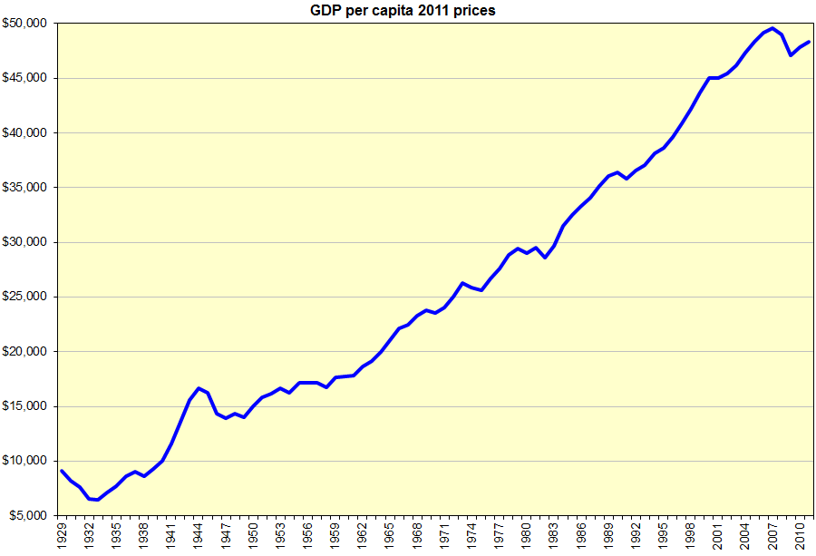 Historical GDP per capita for the United States